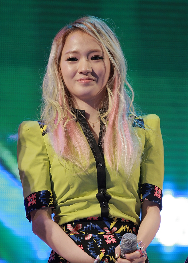 Sojung Lee at the Suwon Gymnasium on November 10, 2013.